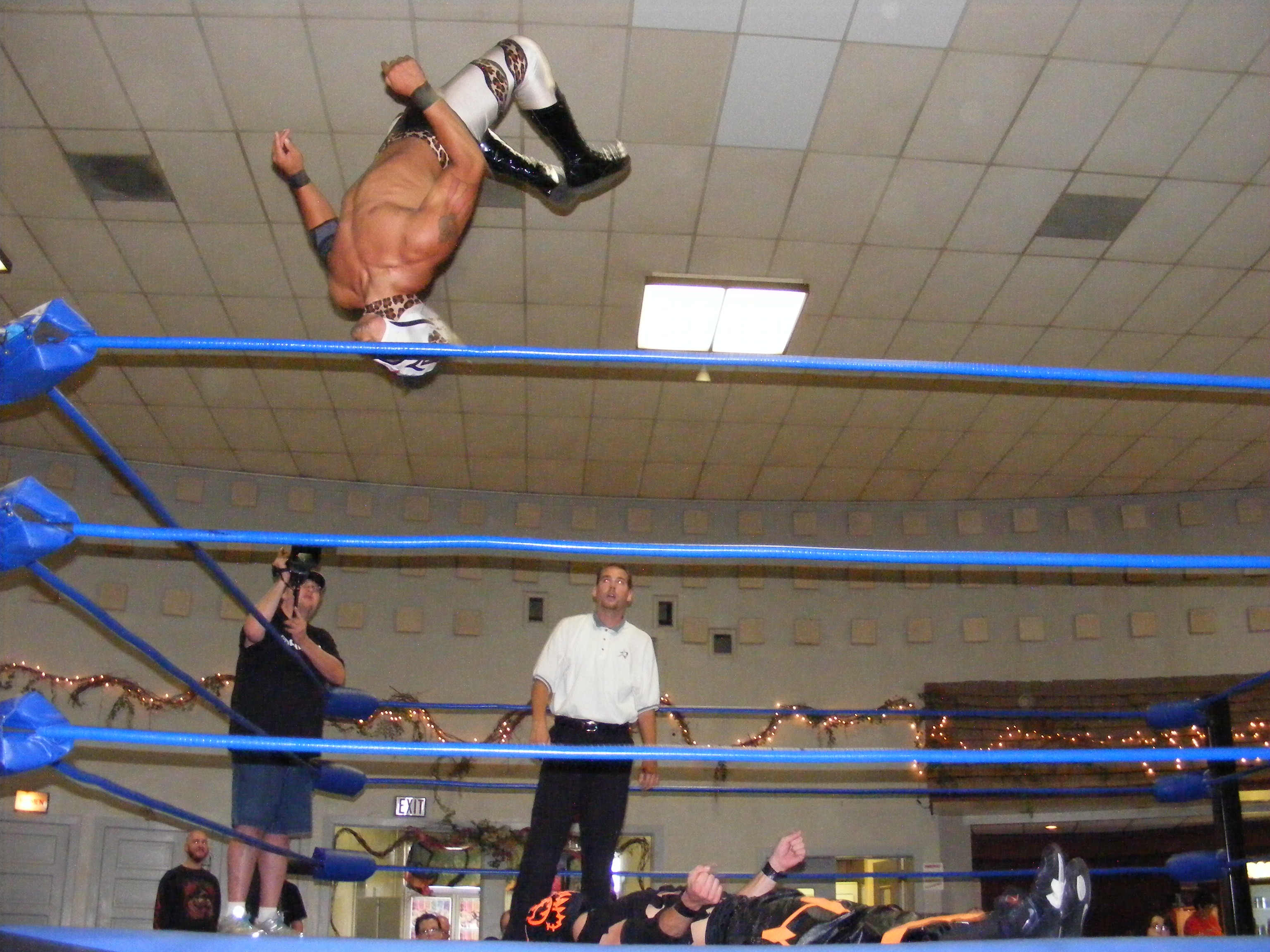 Professional wrestler Lince Dorado performing a shooting star press on Frightmare during the Chikara Young Lions Cup VIII finals